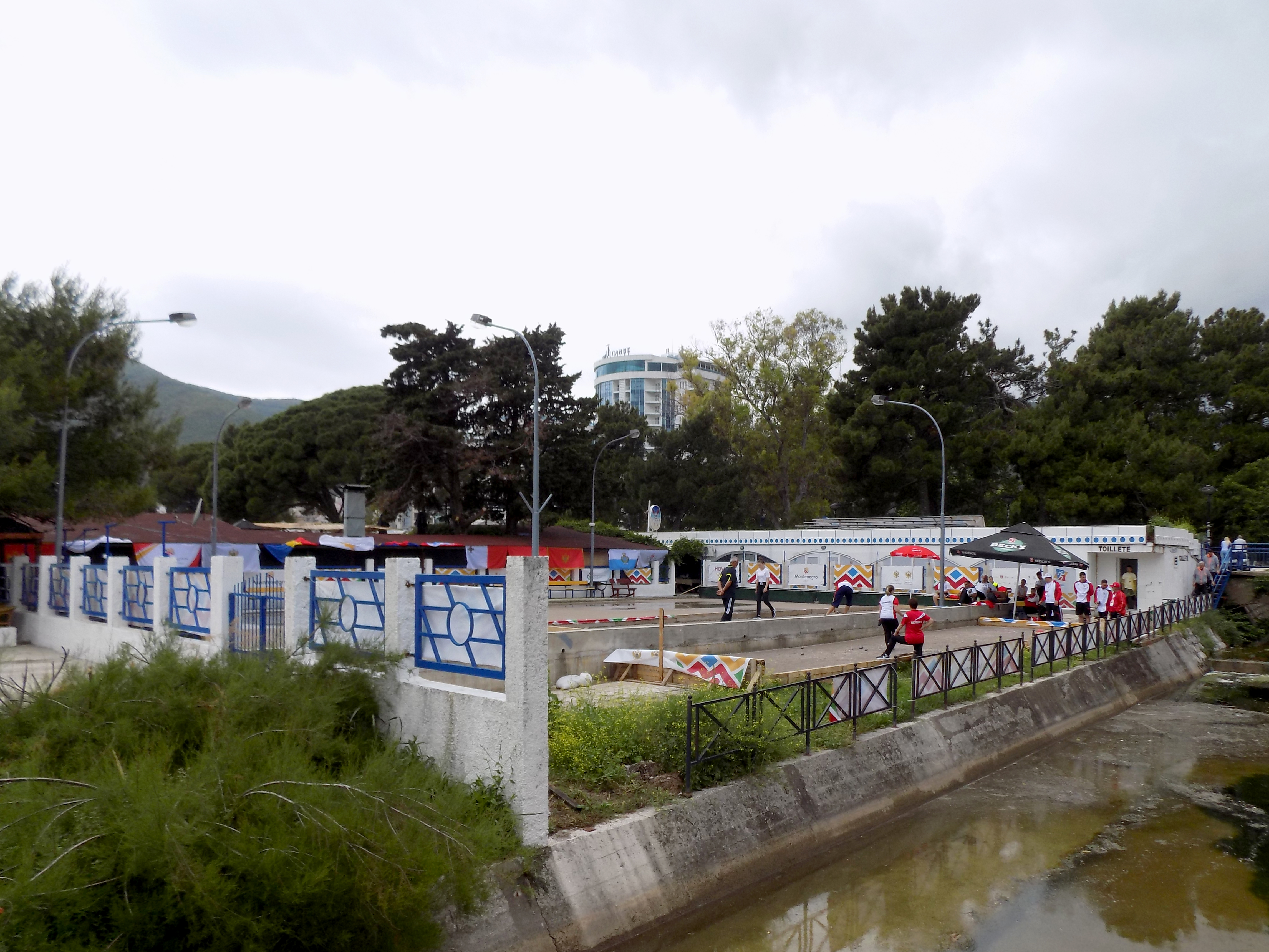 Boules on 2019 Games of the Small States of Europe (May 29, Budva, Montenegro)